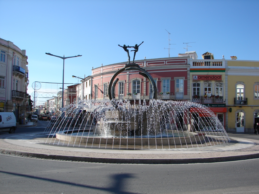 A Bronze sculpture by the Dutch sculptor Jits Bakker located in the city of Loulé, Algarve, Portugal. Loulé Valter Jacinto